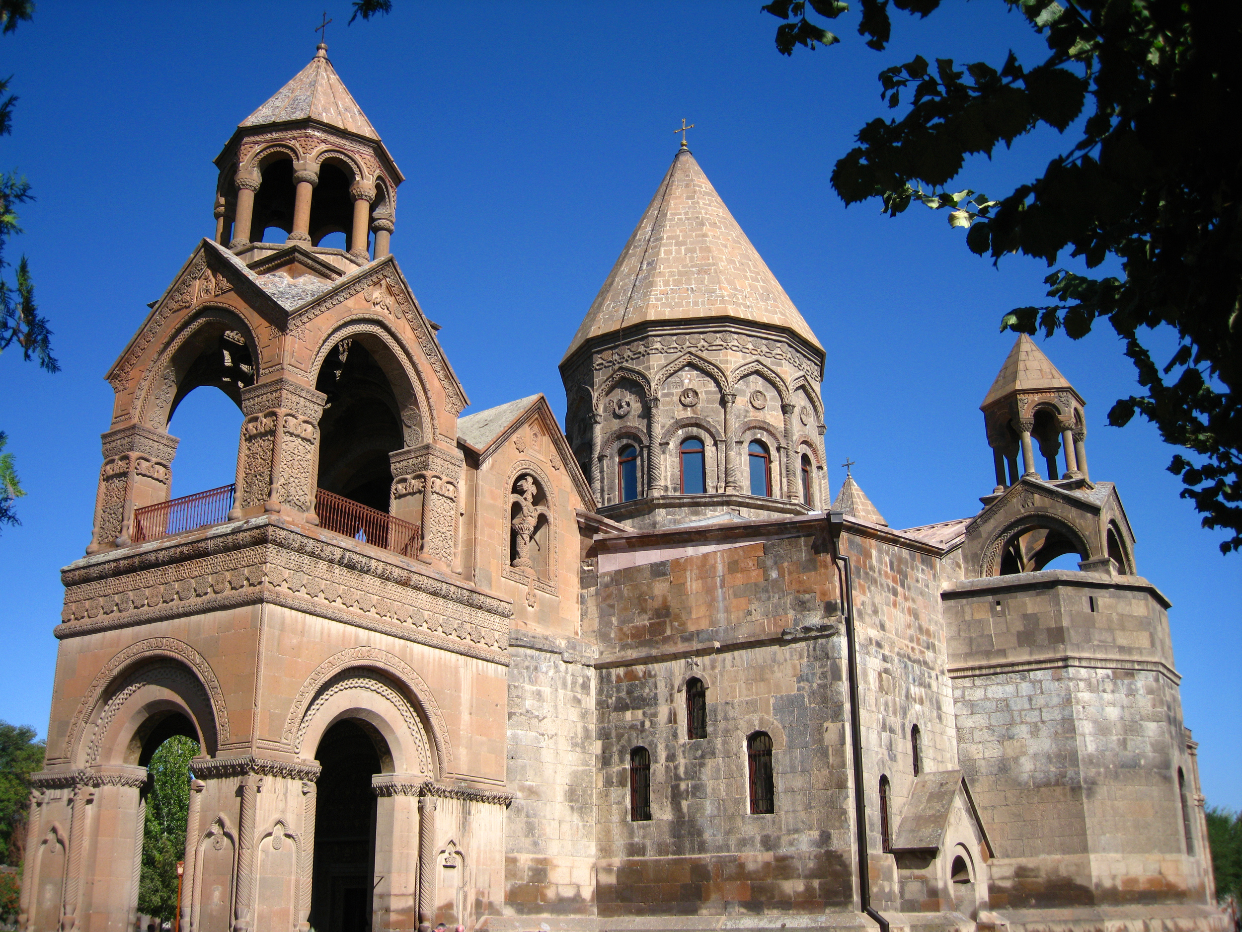 The Etchmiadzin Cathedral, one of the oldest churches in Armenia from the 5th century in Armenia's holy city of Ejmiatsin, Armenia.